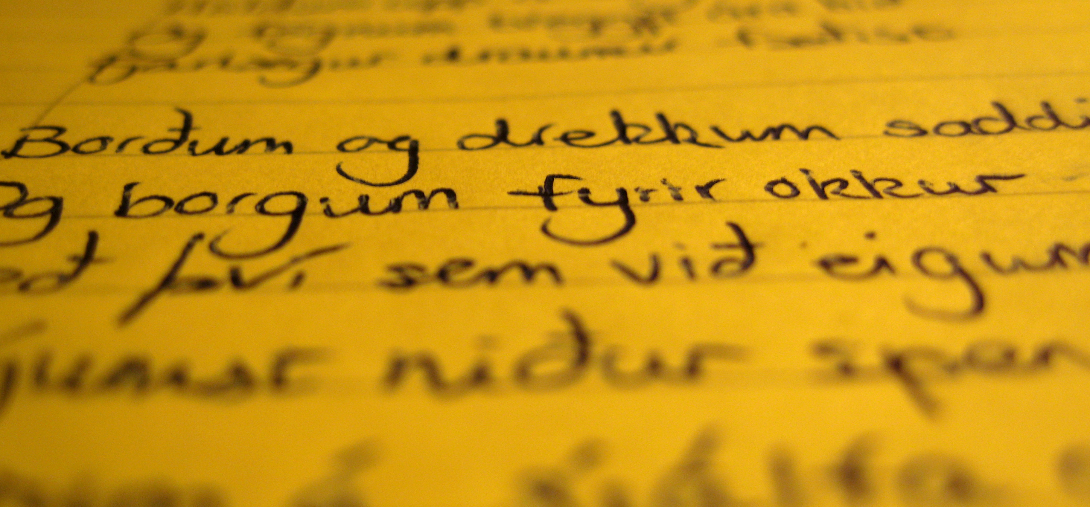 A close-up of a segment of the song-lyrics for Ágætis byrjun, by Sigur Rós, written out in my own handwriting. Also published on my Flickr account. Fjarlægur draumur fæðist Borðum og drekkum saddir Og borgum fyrir okkur Með því sem við eigum í dag Setjumst niður spenntir (Translation: A distant dream is born//We eat and drink ourselves full/And then we pay up With all we have for the day//We sit down excited, Lyrics from )